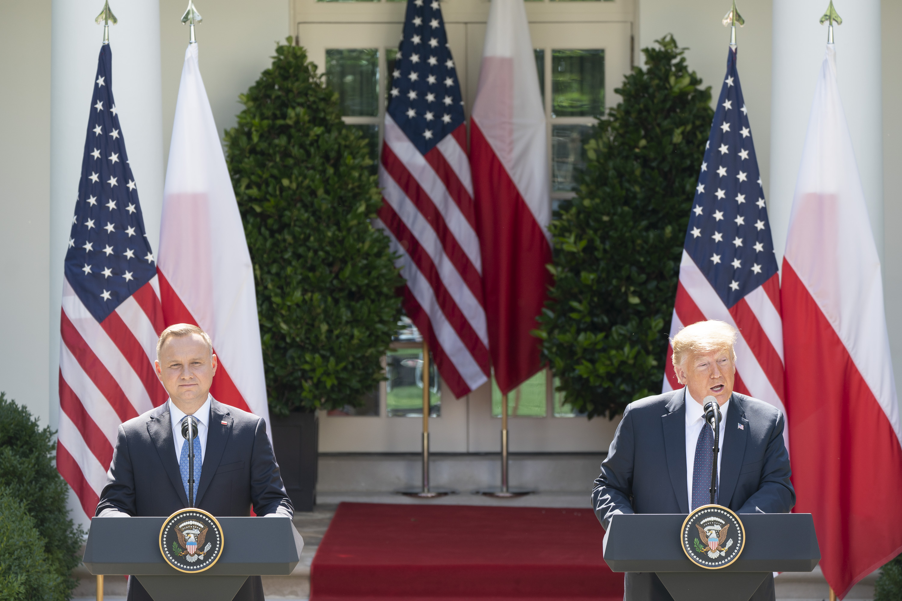 President Donald J. Trump participates in a joint press conference with Polish President Andrzej Duda Wednesday, June 24, 2020, in the Rose Garden of the White House. (Official White House Photo by Shealah Craighead)